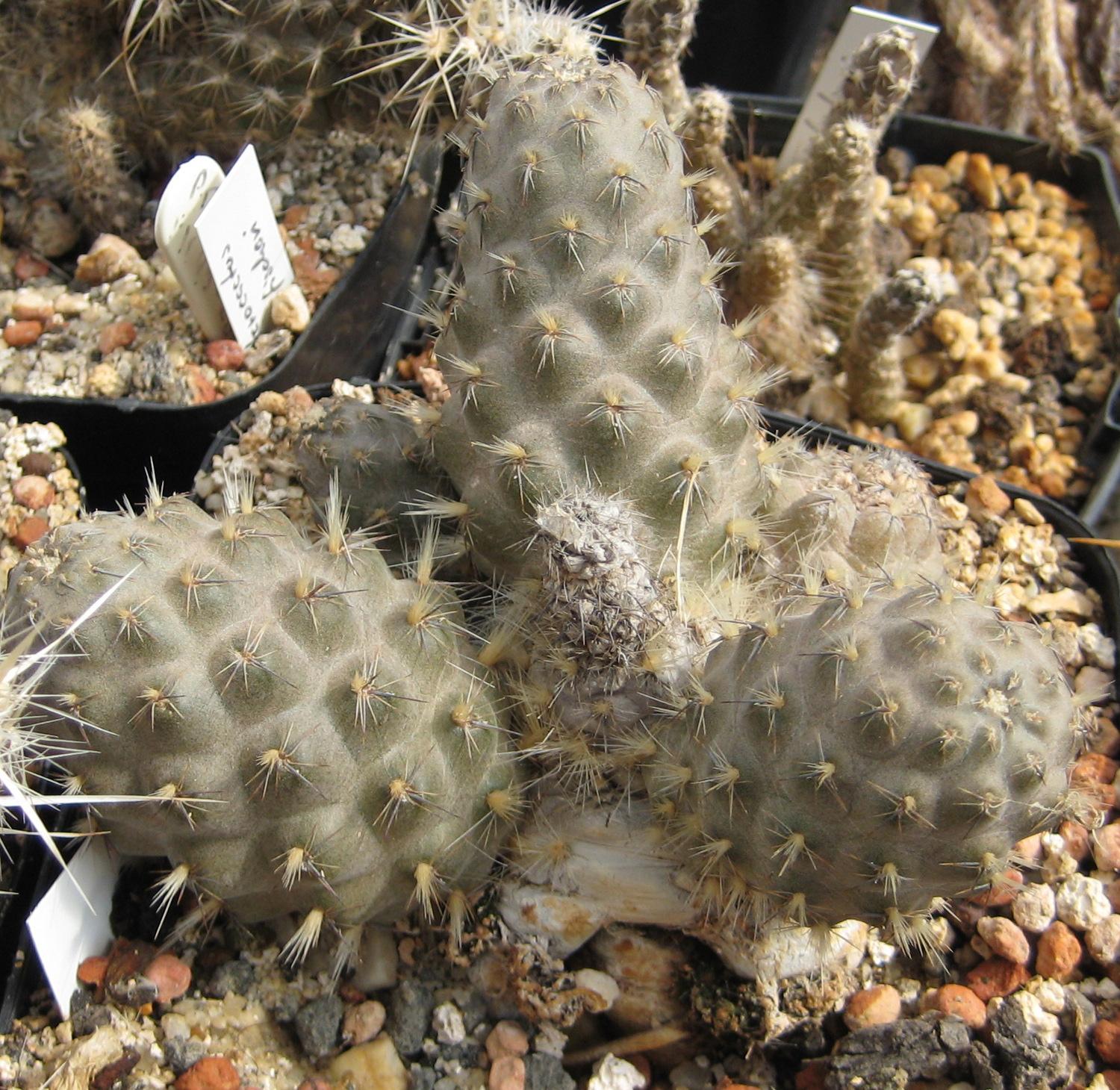 Pterocactus hickenii